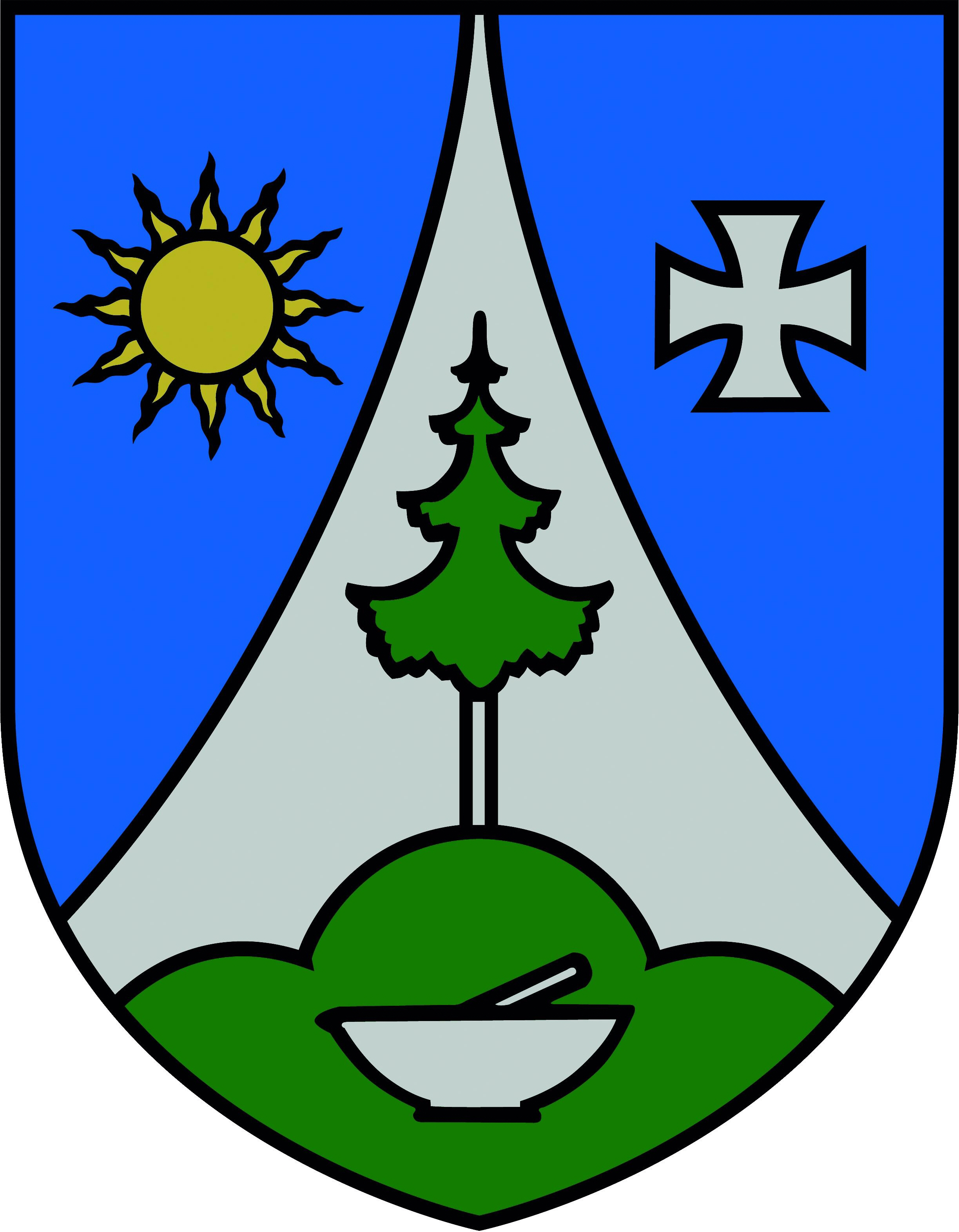 Coat of arms of Laßnitzhöhe, Styria